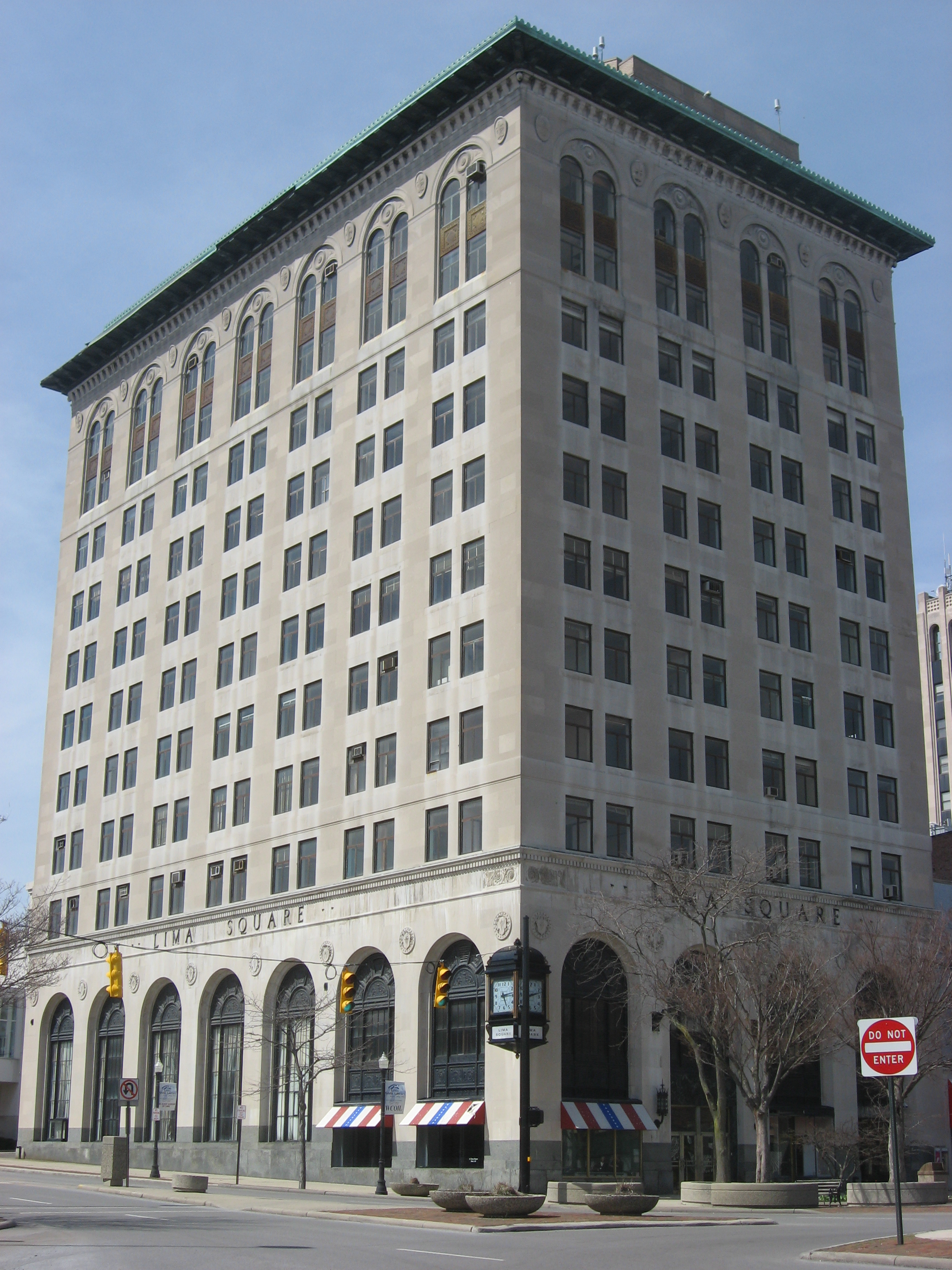 Closeup of the front and southern side of the First National Bank and Trust Building, located at 43-53 Public Square in downtown Lima, Ohio, United States. Built in 1926, it is listed on the National Register of Historic Places.